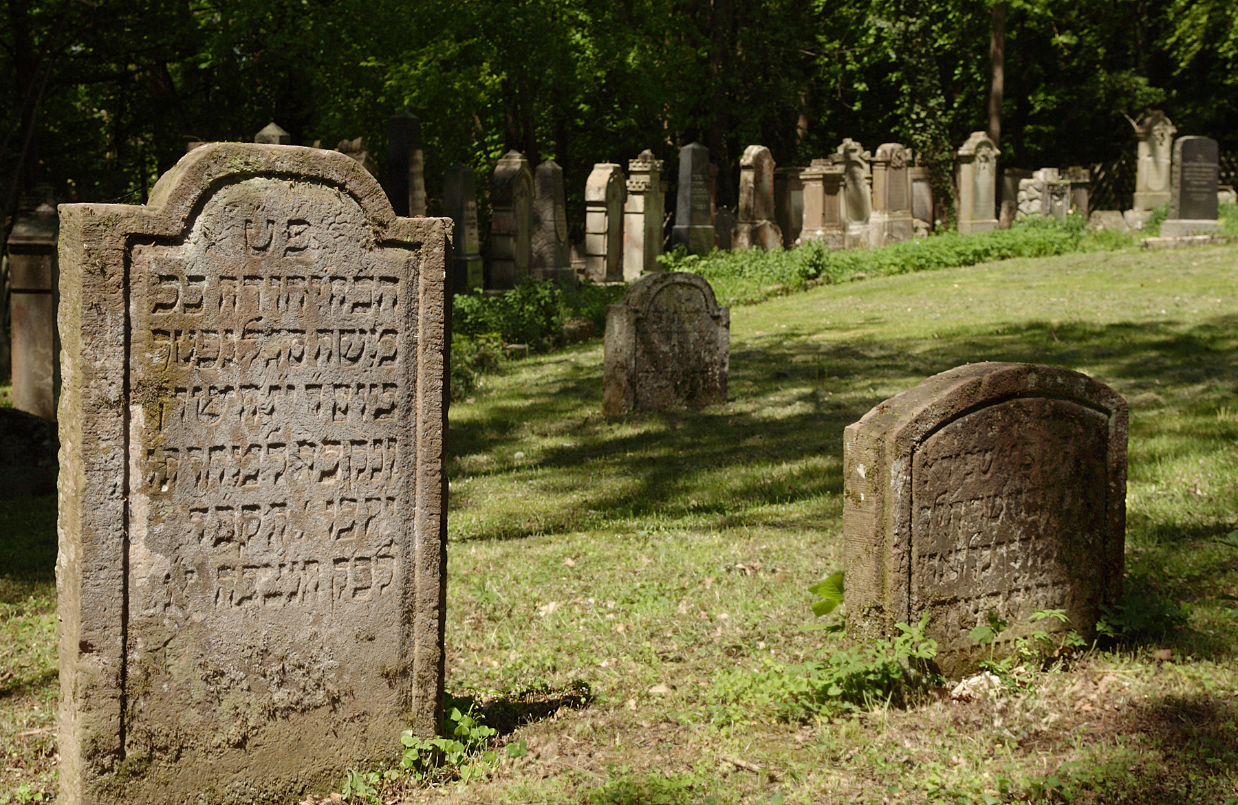 The enclosed Jewish cemetery Wankheim (1789-1941) is situated at a woodland edge outside the community Wankheim and ca. 3,6 km from center Tübingen. The last gravestone is that for Albert Schäfer, who was deported to KZ Dachau after the November events of the Kristallnacht. His death was in consequence of the treatment there. In 1880 the Jewish community of Tübingen and Reutlingen took over the cemetery. While old gravestones are simple sandstone with Hebrew typeface, newer steles are in Latin showing prosperity and assimilation to their Christian environment. The cemetery was heavily vandalized in 1939, yet again in 1950, 1986 an on New Years Eve 1990. A huge memorial stone, placed by the holocaust survivor Victor Marx in 1949, reminded of the 14 Tübingen victims, who were murdered by Nazis; amongst them his mother Blanda, his wife Marga and his eight years old daughter Ruth.